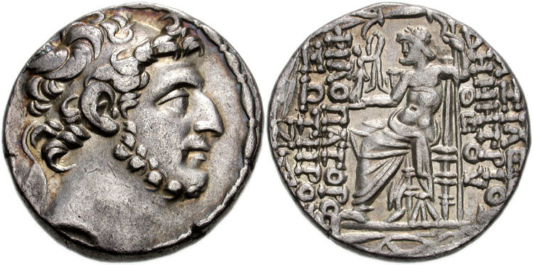 769444. Sold For $595 SELEUKID KINGS of SYRIA. Demetrios III Eukairos. 97/6-88/7 BC. AR Tetradrachm (26mm, 15.82 g, 12h). Antioch mint. Struck circa 88/7 BC. Diademed head right / Zeus Nikephoros seated left; to outer left, N above A; monogram below throne; all within wreath. SNG Spaer 2823; SMA 435. Good VF, light iridescent toning. Rare.